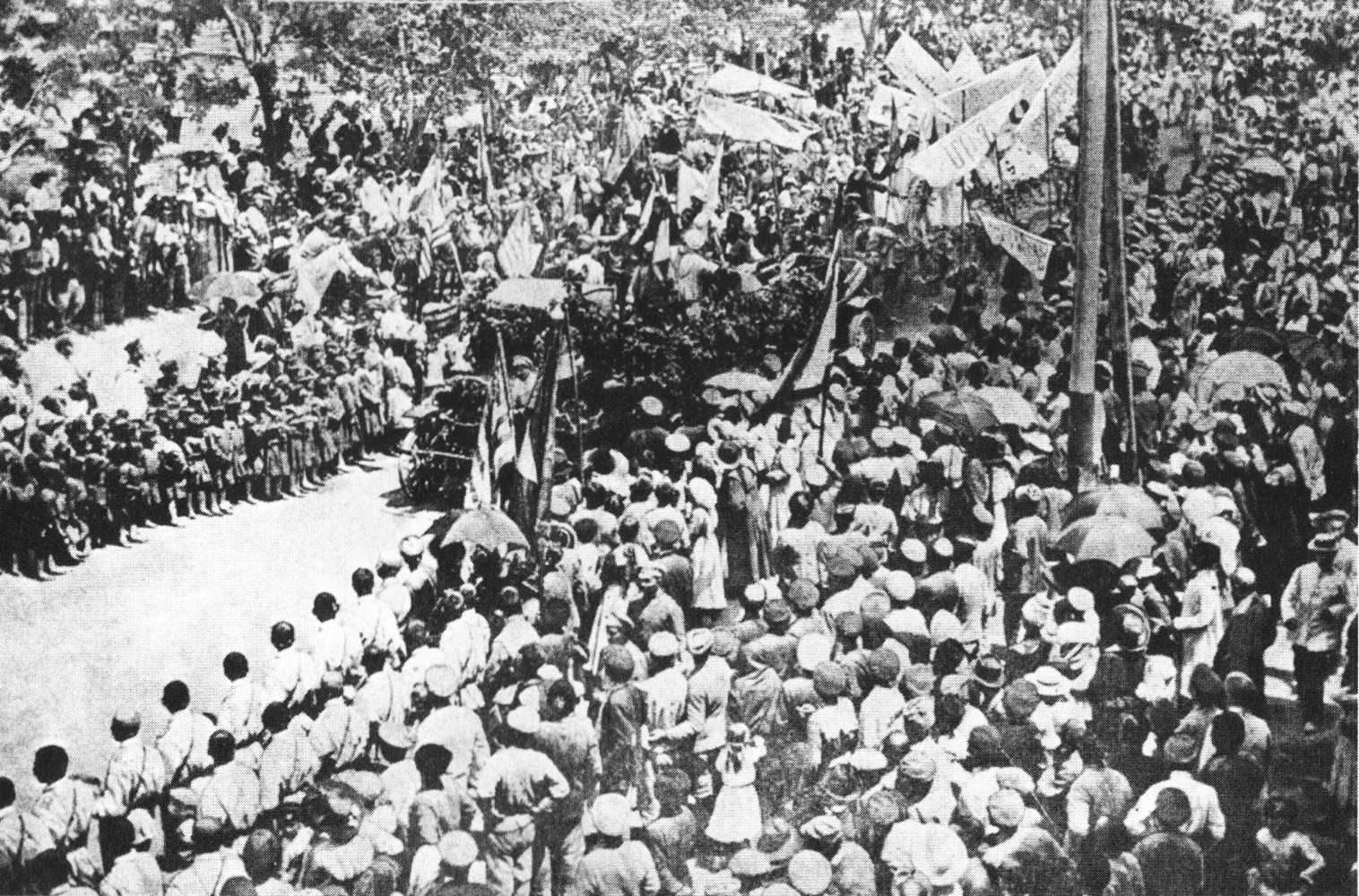 Celebration of the first anniversary of the Republic of Armenian on May 28, 1919 in Yerevan